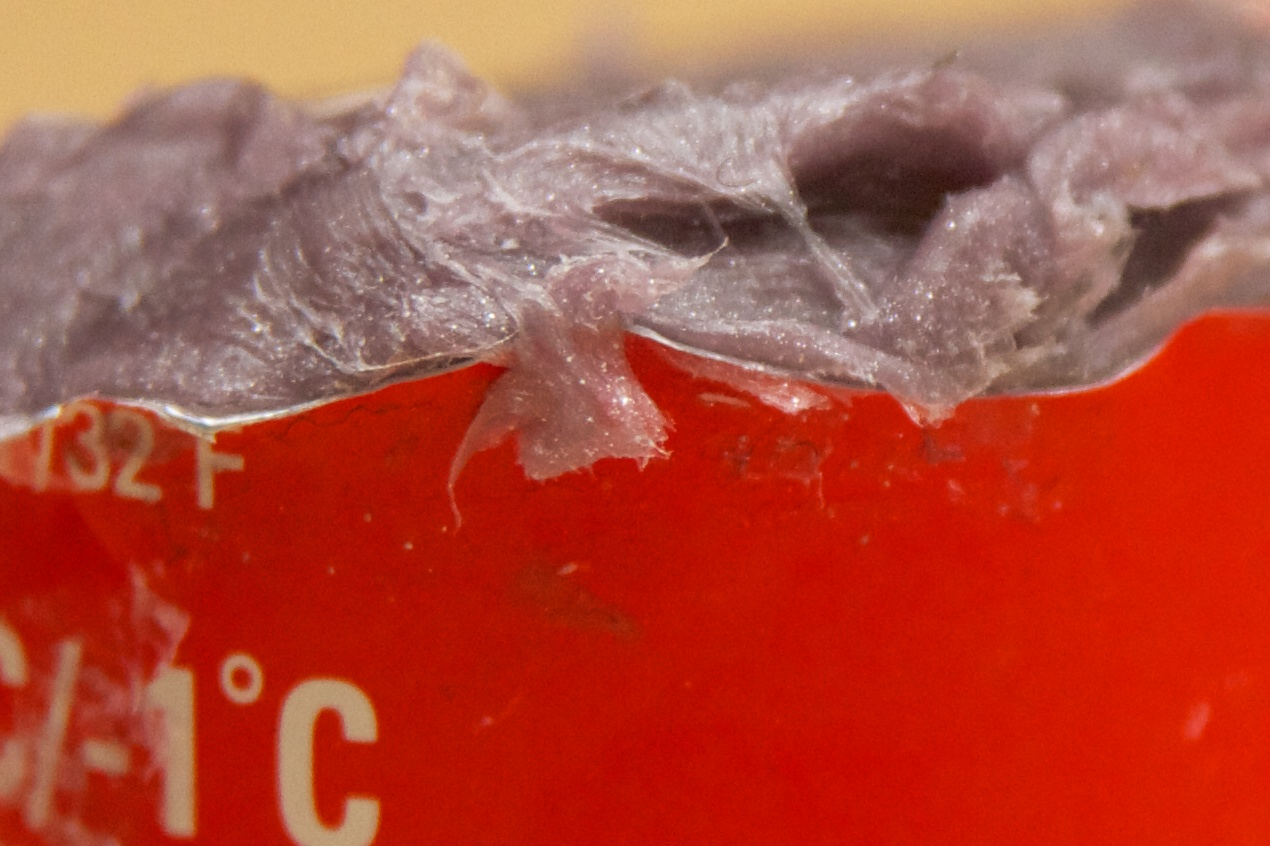 Grip wax